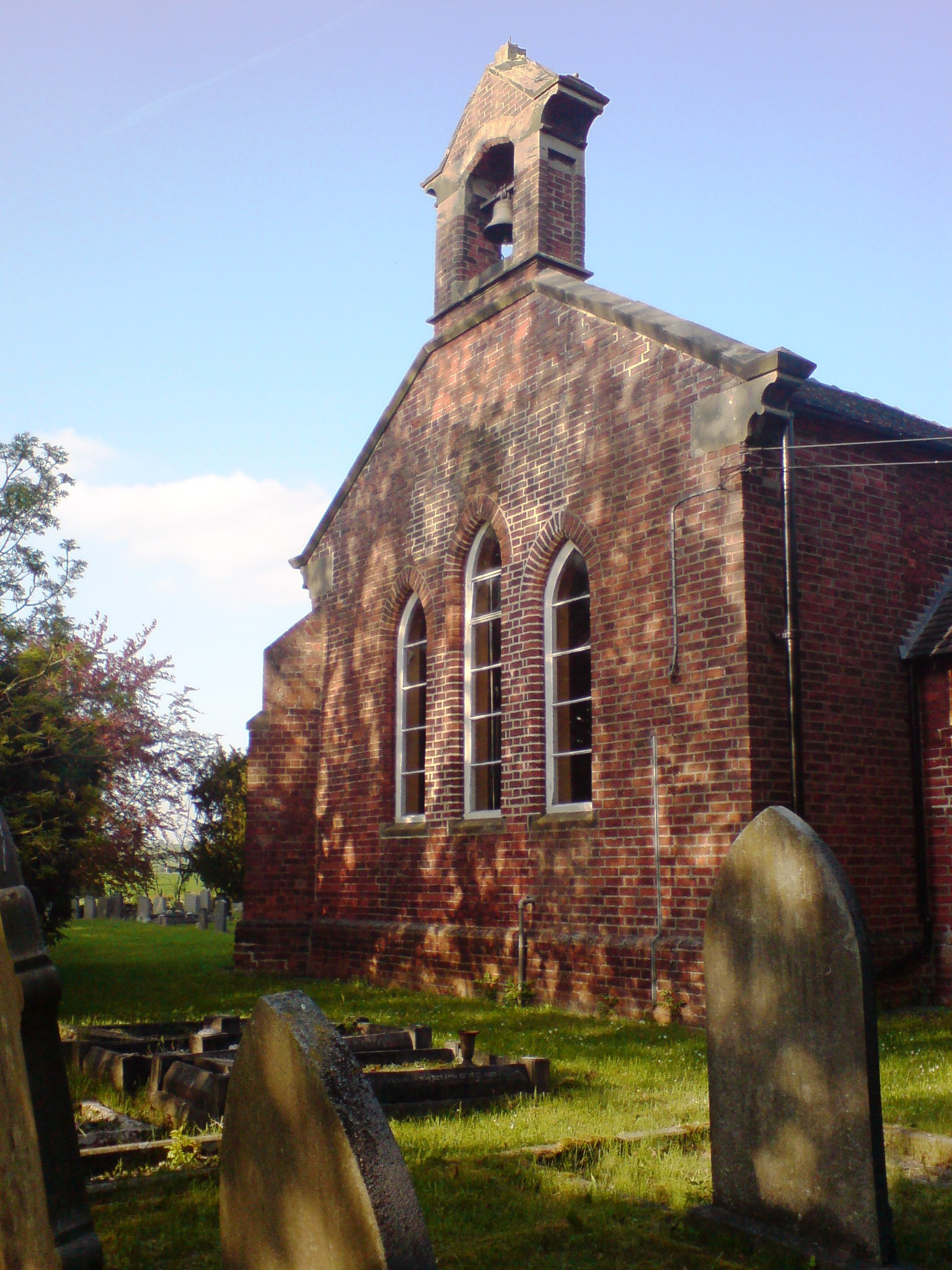 West end of the parish church of St John the Evangelist, Whitgreave, Staffordshire, seen from the southwest